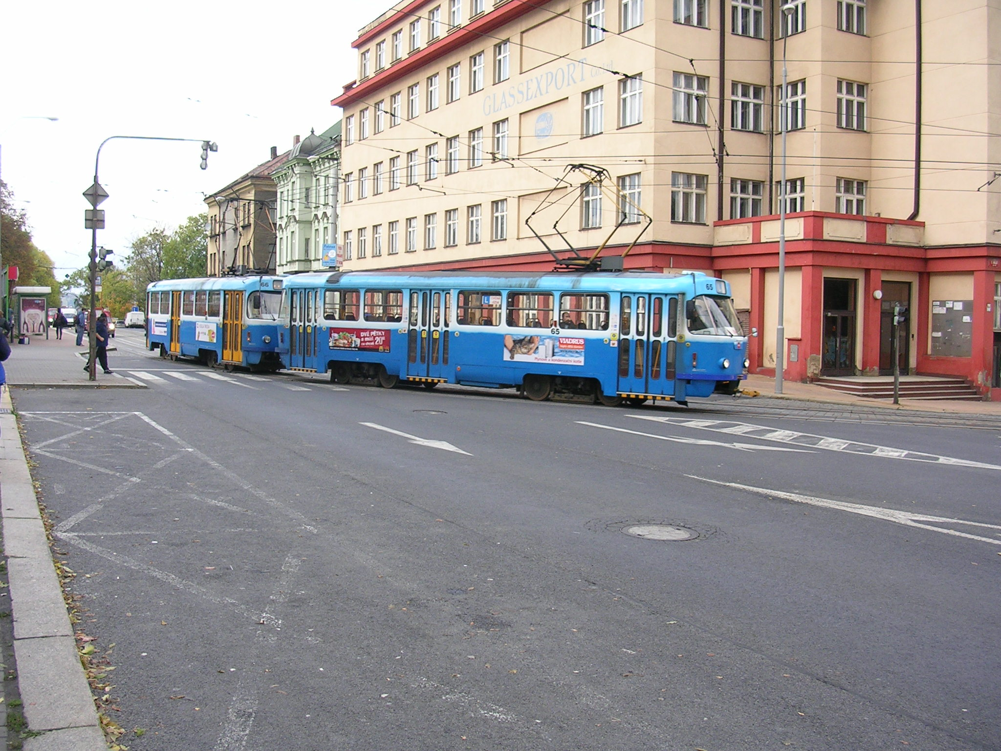 Liberec, Czech Republic. “Nádraží” (“Train Station”) tram stop. Driving school tram.